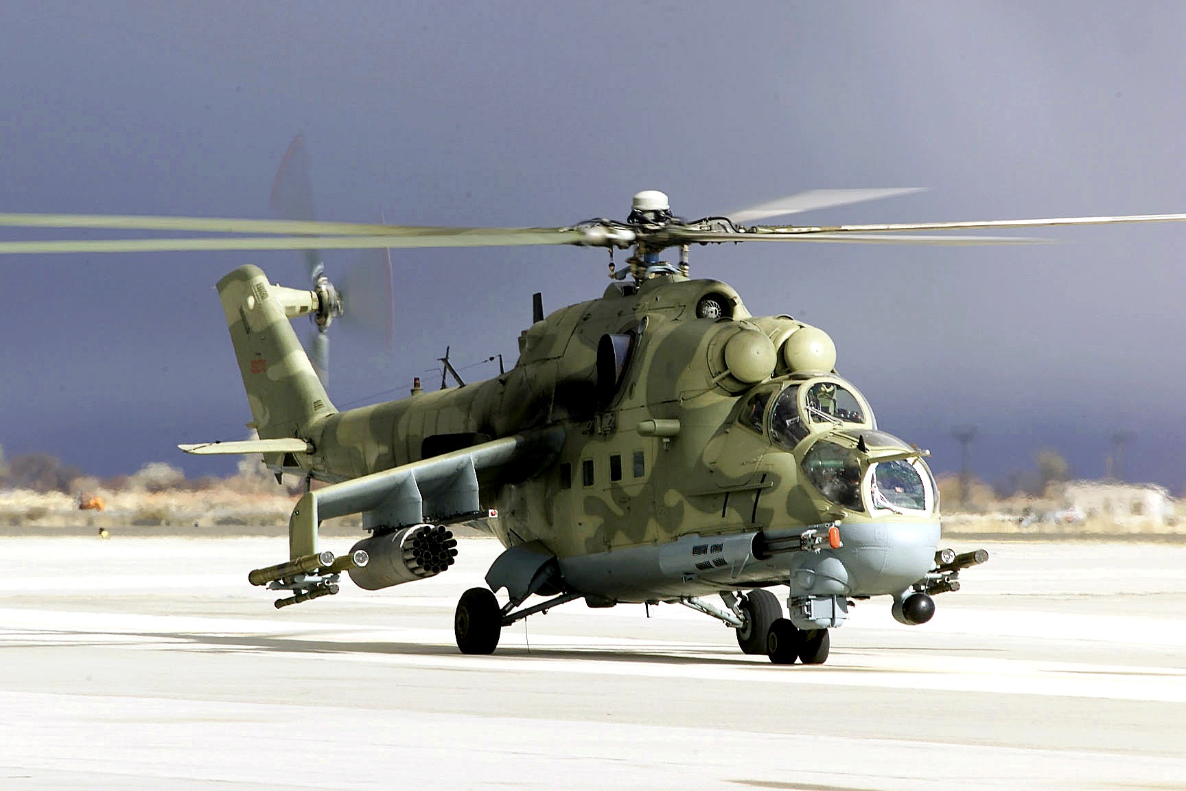 Right side front view medium shot at a Russian made HIND Mi-24 helicopter from the Army Test and Evaluation Center, Threat Support Activity, Las Vegas, Nevada, taxis back after providing simulated hostile threats to Search and Rescue operations, during Desert Rescue. Desert Rescue is a Joint Service Combat Search and Rescue (CSAR), exercise designed to fully integrate planning and execution of both immediate and dedicated missions.